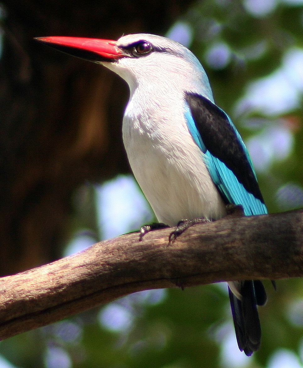 Woodland Kingfisher (Halcyon senegalensis cyanoleuca) photographed in Botswana